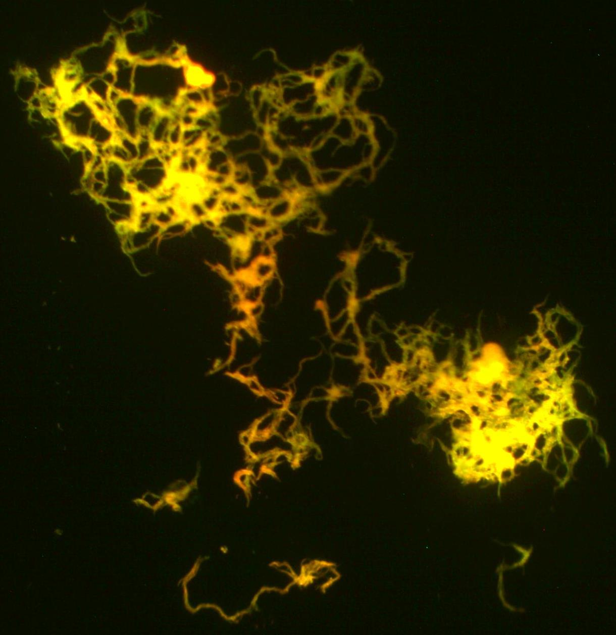 Chording mycobacterium tuberculosis (H37Rv strain) culture on the luminescent microscopy (magn.80x, fluorochr. auramine-rodamine). Culture grown on Middlebrook 7H9.